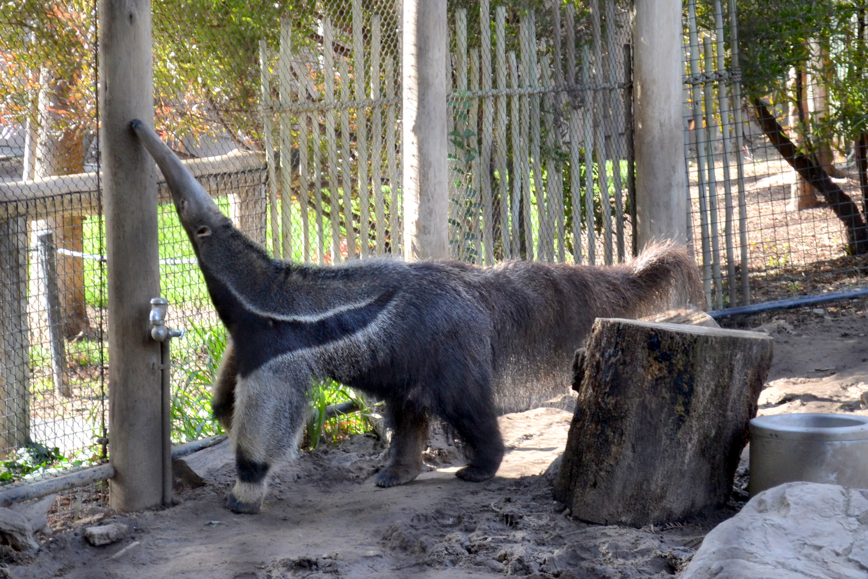 Anteater at Happy Hollow Park & Zoo